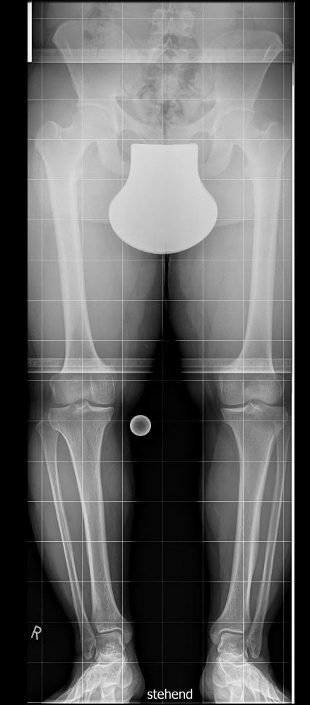 17 yrs old female with Hypochondroplasia, X-ray of lower extremities